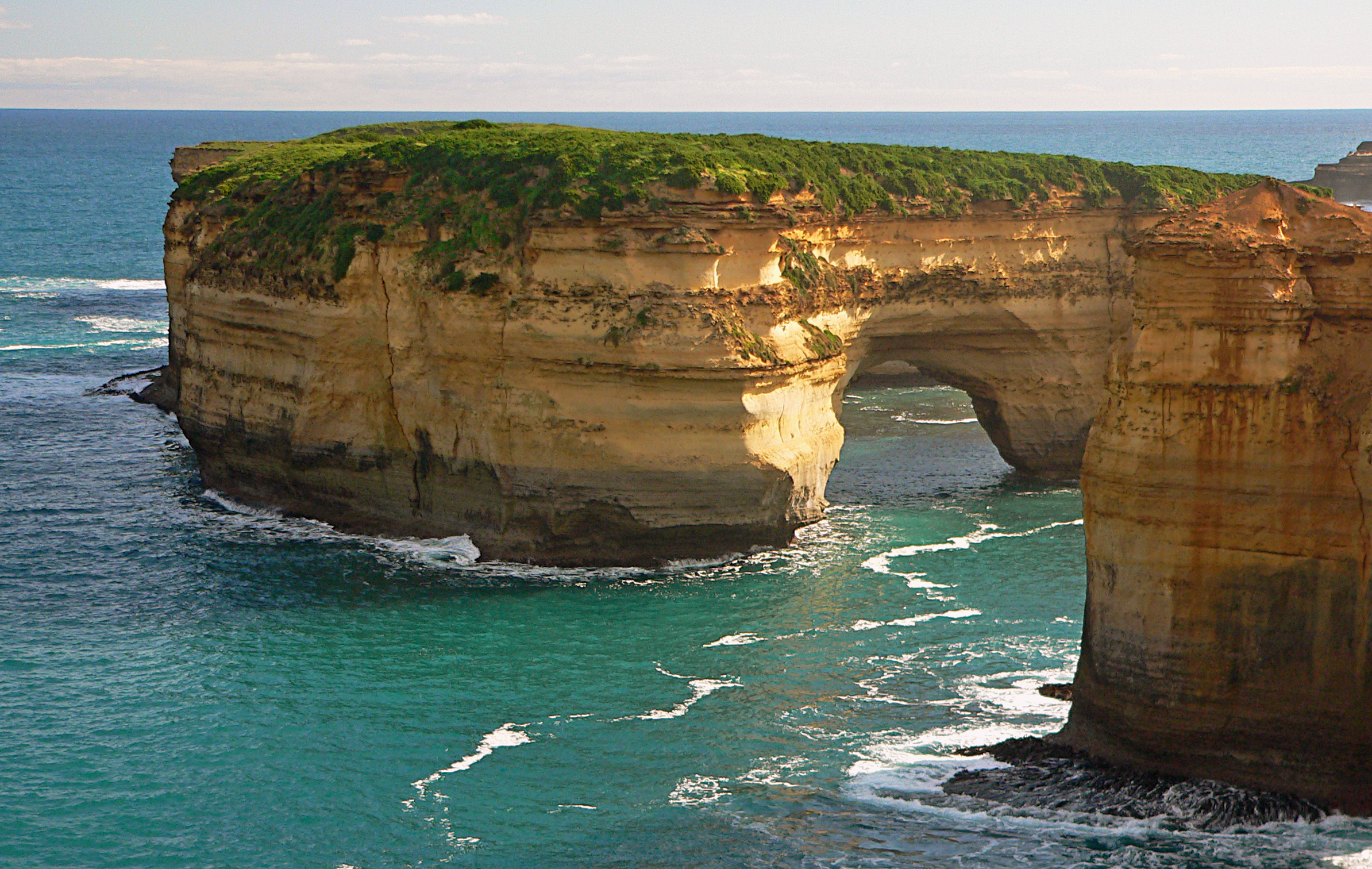 The Loch Ard Gorge is part of Port Campbell National Park, Victoria, Australia, about three minutes' drive west of The Twelve Apostles.